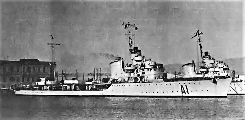 The Italian destroyer Ascari in 1940.